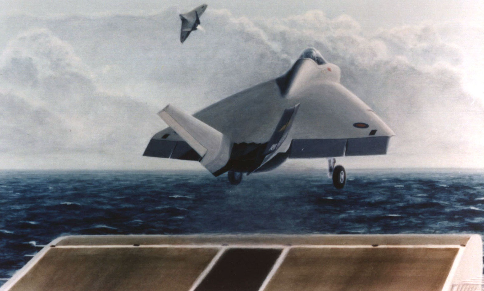 This artist's conception is the Royal Navy version of the Joint Strike Fighter to be built by Boeing. Secretary of Defense William J. Perry announced the selection of the Boeing Company, Seattle, Wash., as one of two contractors to be awarded a cost-plus-fixed-fee contract for the Joint Strike Fighter Concept Demonstration Program during a briefing at the Pentagon on Nov. 16, 1996. The Joint Strike Fighter is the military's next generation, multi-role, strike aircraft designed to complement the Navy F/A-18 and the Air Force F-22 aircraft. The Concept Demonstration Program will feature flying aircraft demonstrators, ground and flight technology demonstrations, and continued refinement of the contractor's weapons system concept for the next generation strike fighter for the Navy, Marine Corps, Air Force, and Royal Navy. With the first operational aircraft delivery slated for 2008, the development program is a joint U.S.-United Kingdom effort that seeks to affordably replace aging strike assets while maintaining the national and allied combat technological edge. The Lockheed Martin of Fort Worth, Texas, will also develop their concept of the Joint Strike Fighter under a similar contract.